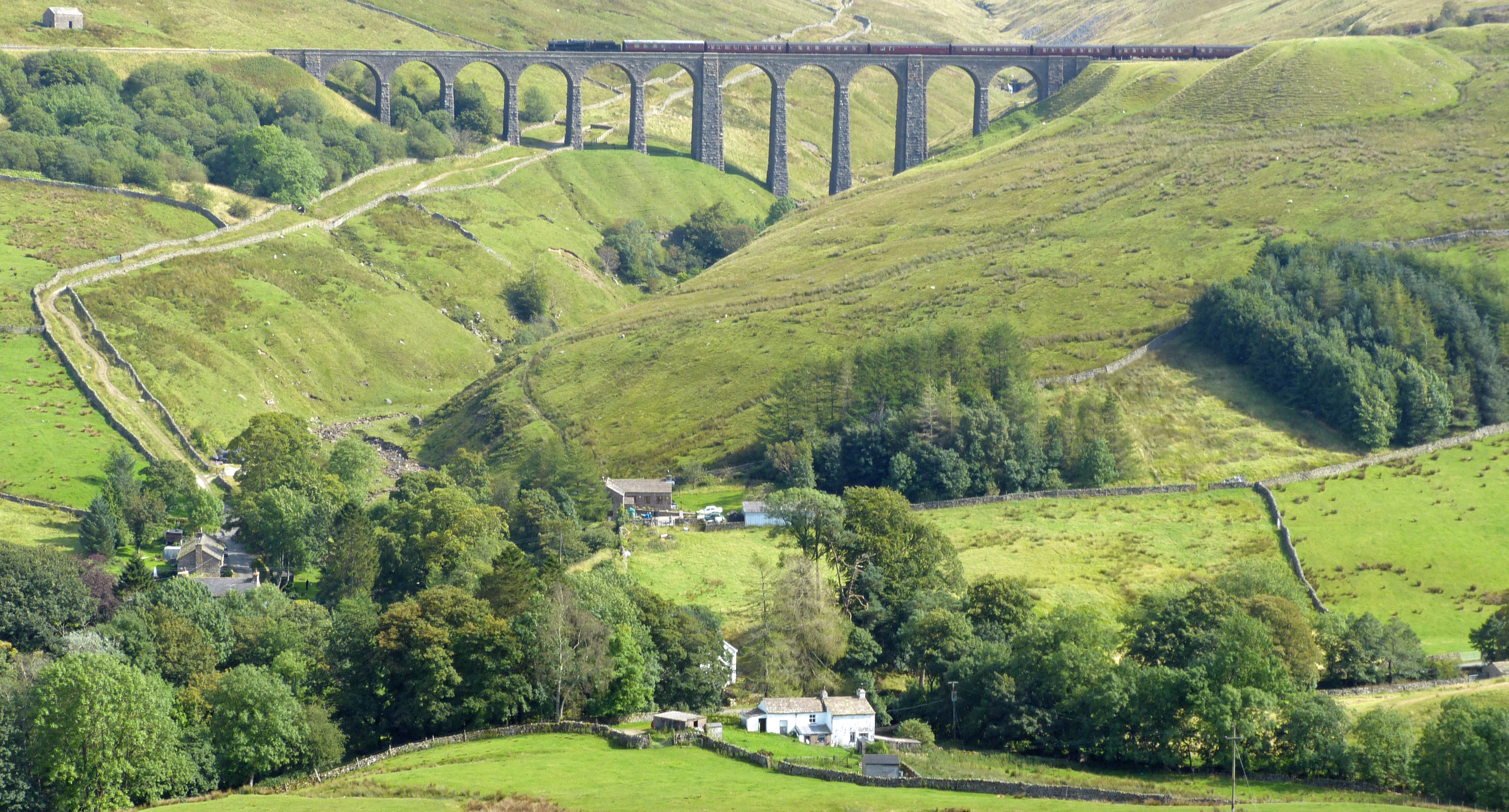 Stonehouse and the Artengill Viaduct. A long walk from Ribblehead to the access land above Cow Dub in Dentdale gives this view across the valley. I went for the "landscape" shot rather than zooming in on the Waverley - 45305.